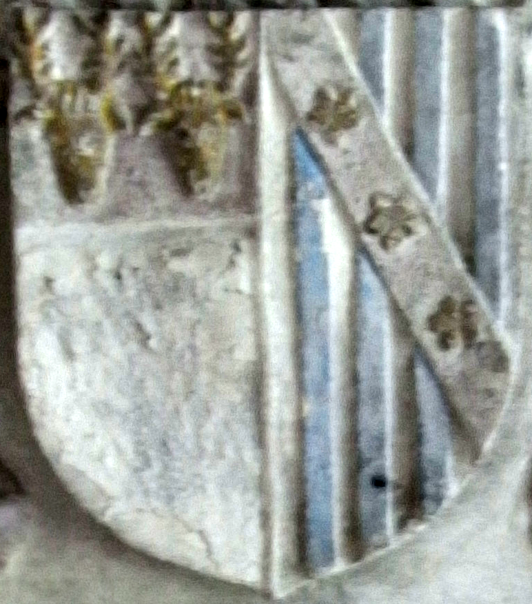 Escutcheon in the Pole Chapel of Colyton Church, Devon, showing arms of Popham (Argent, on a chief gules two stag's heads cabossed or) impaling Stradling (Paly of six argent and azure, on a bend gules three mullets or), representing the marriage of Alexander Popham (c.1504-1556) MP, of Huntworth, Somerset, and Joan Stradling, daughter of Sir Edward Stradling (d.1535) of St Donat's Castle, Glamorgan. Detail from monument to Katherine Popham (died 1588), daughter of Alexander Popham and wife of William Pole (1515-1587), MP, and mother of Sir William Pole (1561–1635) of Shute and of Colcombe Castle, Colyton, historian of Devon, and sister of Sir John Popham (1531–1607), Lord Chief Justice of England.